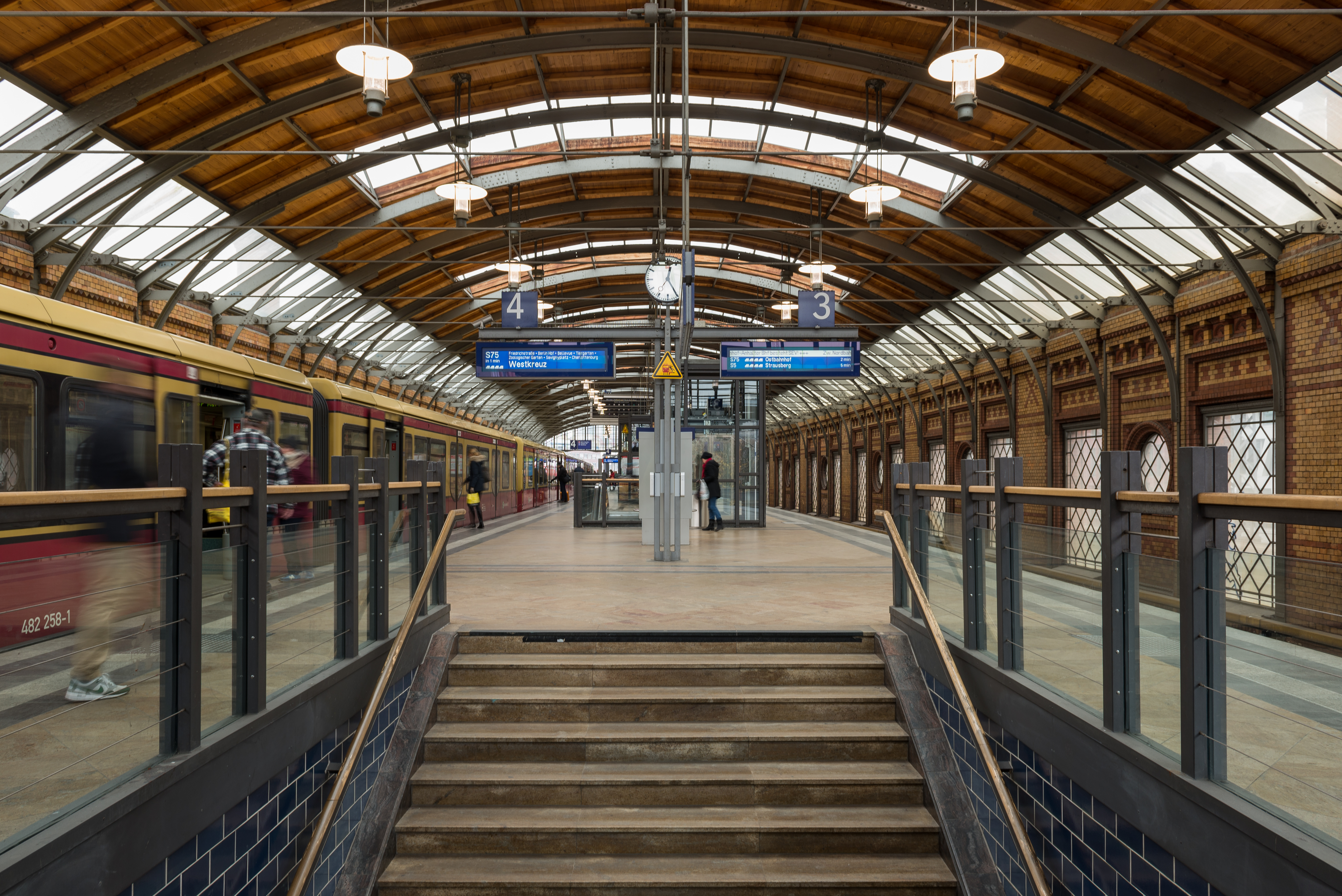 Station Hackescher Markt, Berlin.